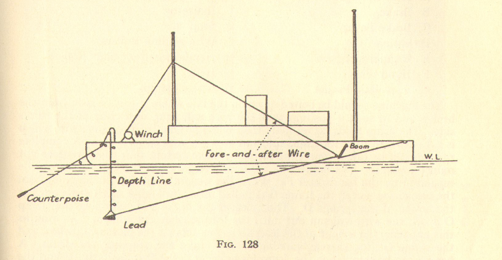 Somerville Sounding Gear. An arrangement to permit soundings to be made from a ship while under way. Full-text of the book from which this figure was taken can be found at the Internet Archive